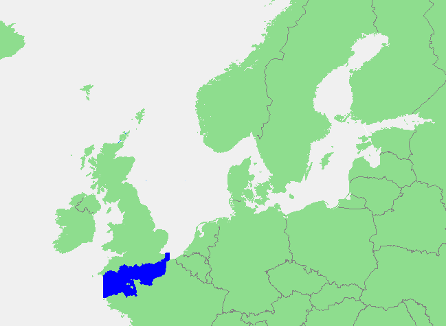 English Channel